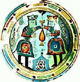 Fayance plate from Beylagan (Azerbaijan)